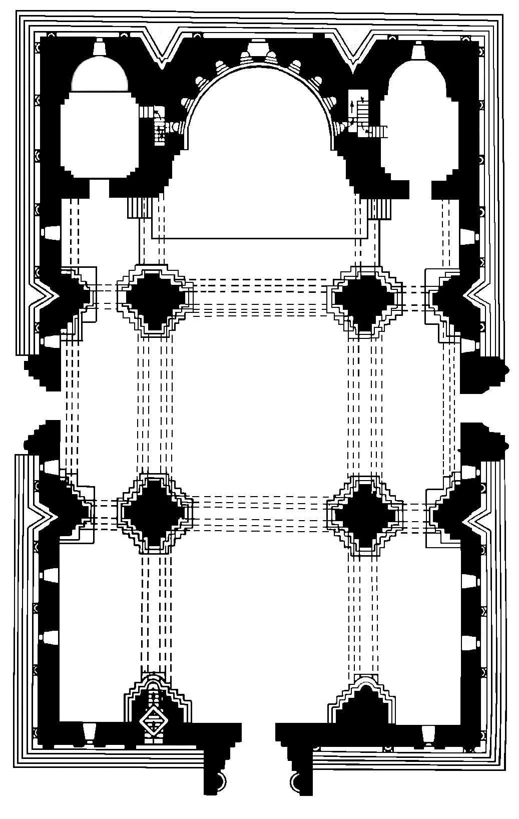 Plan on Mother Church In Ani